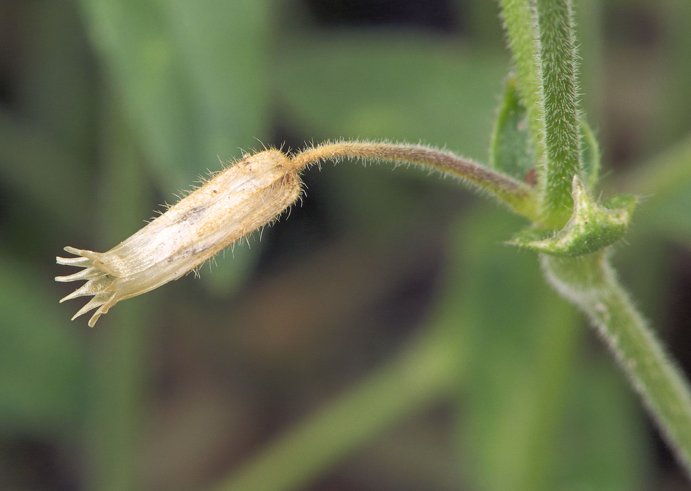 Cerastium fontanum subsp. vulgare open capsule